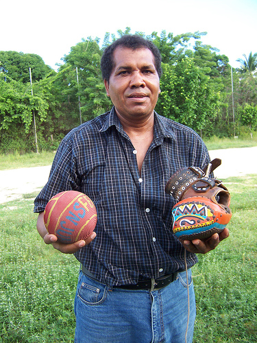 A pelota mixteca with ball and glove. Each glove is painted differently and has nails on the bashing surface. Bajos De Chila, near Puerto Escondido, Oaxaca, Mexico.